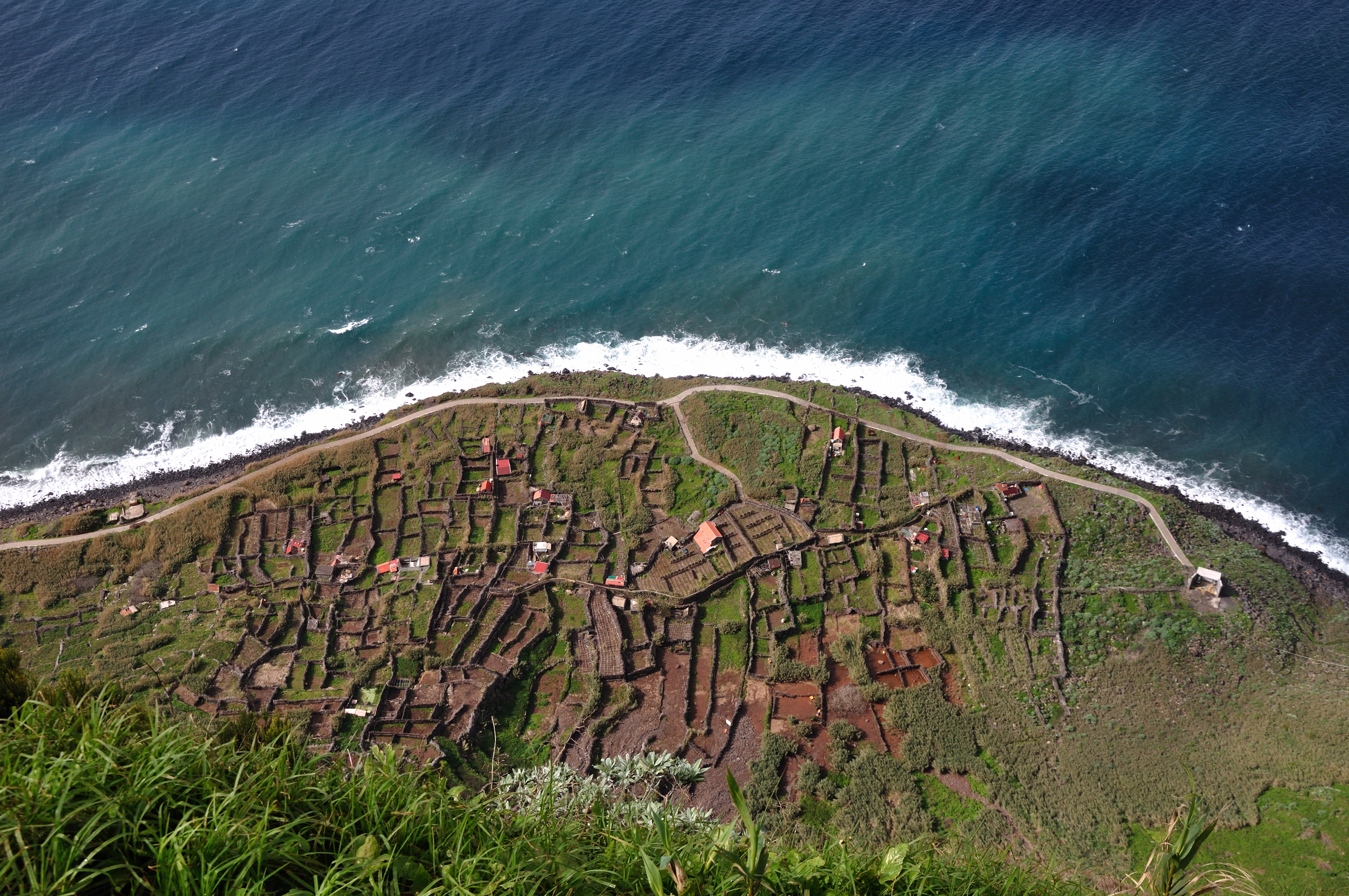 Portugal, the spectacular view from the cable car station in Achadas da Cruz